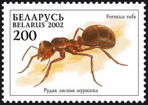 Stamp of Belarus